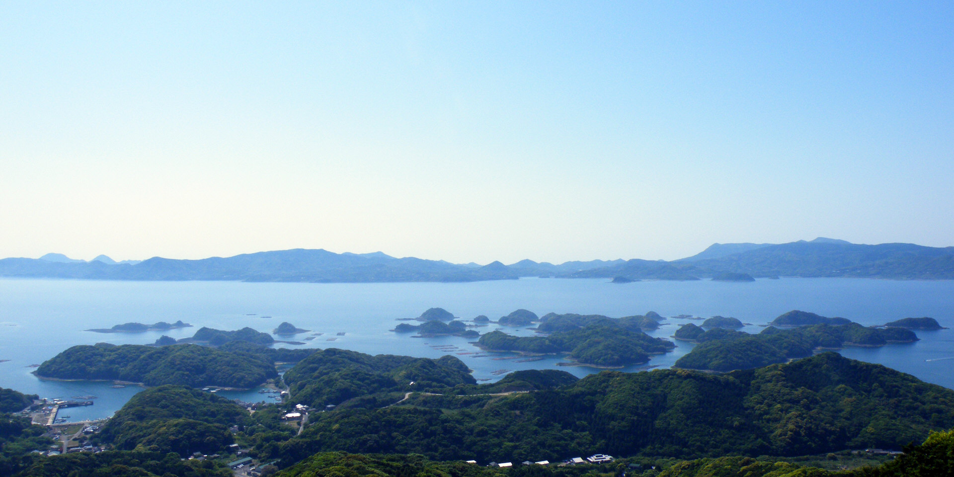 Kita-Kujyukushima(from Nagushiyama Park,Shikamachi, Sasebo City, Japan)